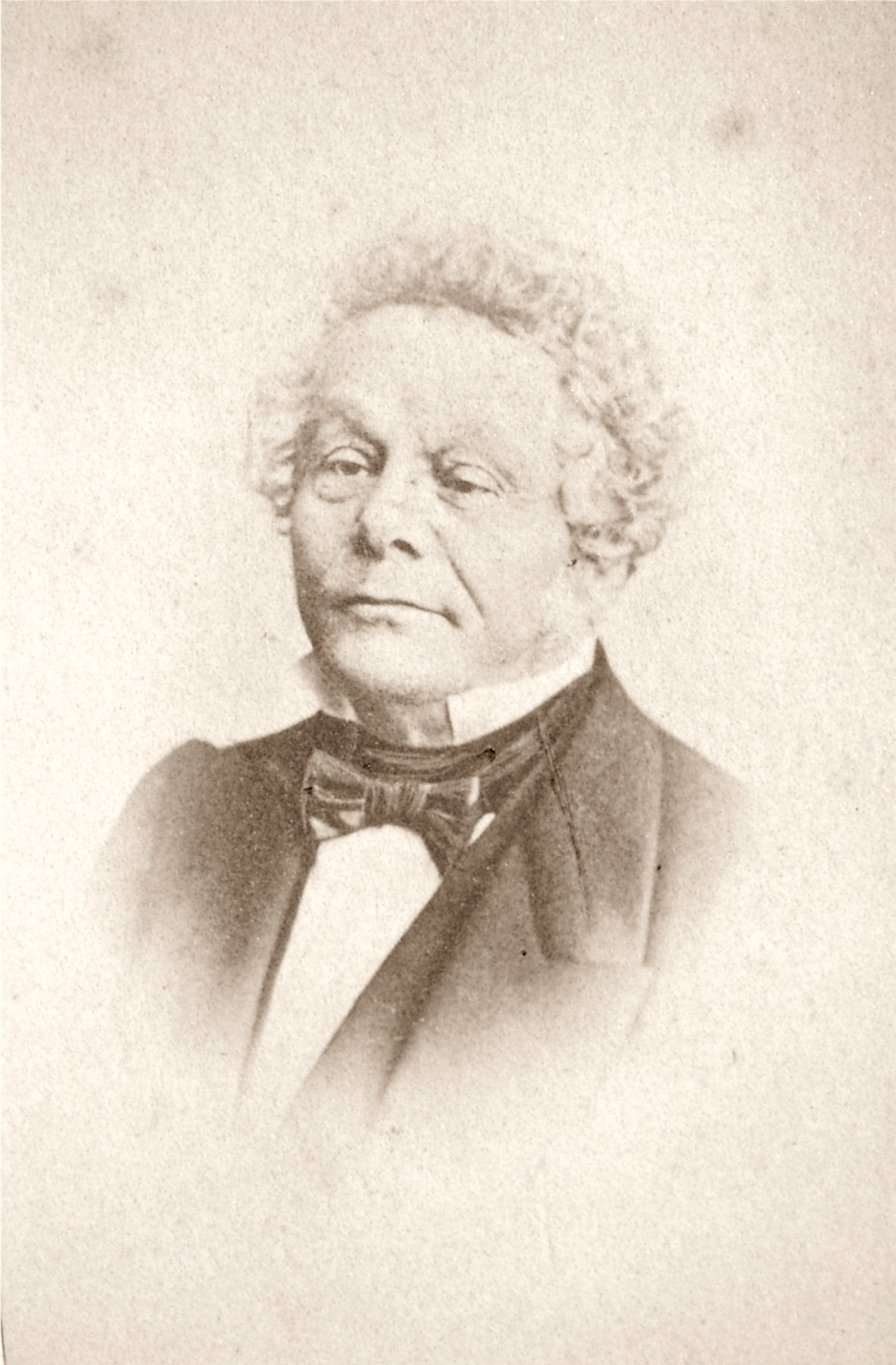 Adolphe Crémieux Emile Ollivier, Minister of France